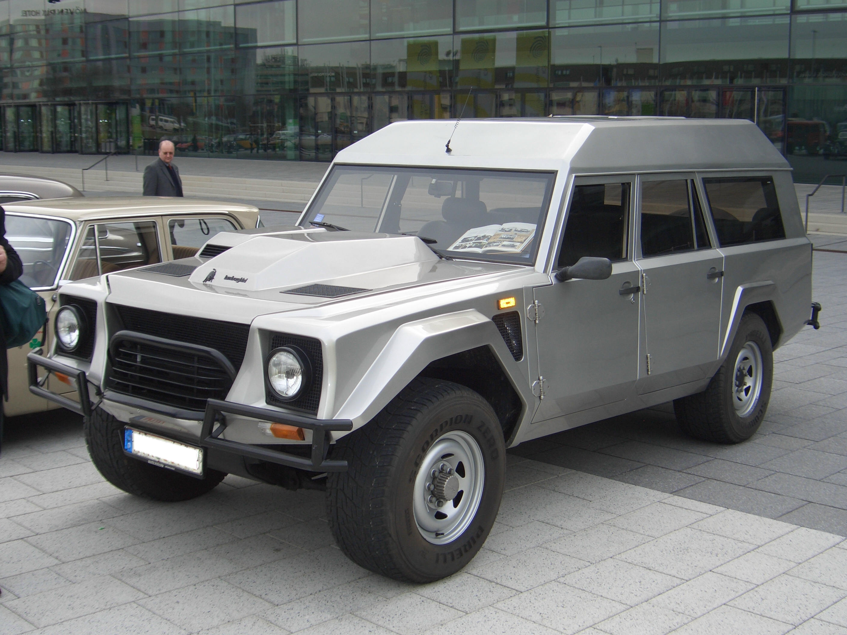 Lamborghini LM 002, estate conversion for the Sultan of Brunei, 1989, seen at Retro Classics fair in Stuttgart, Germany